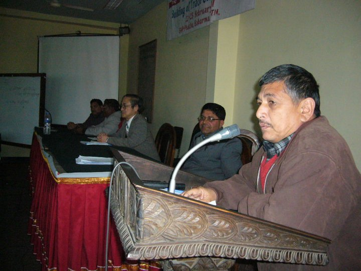 Mr. Ramjee Kunwar addressing a programme organised by NTUCI and JILAF.